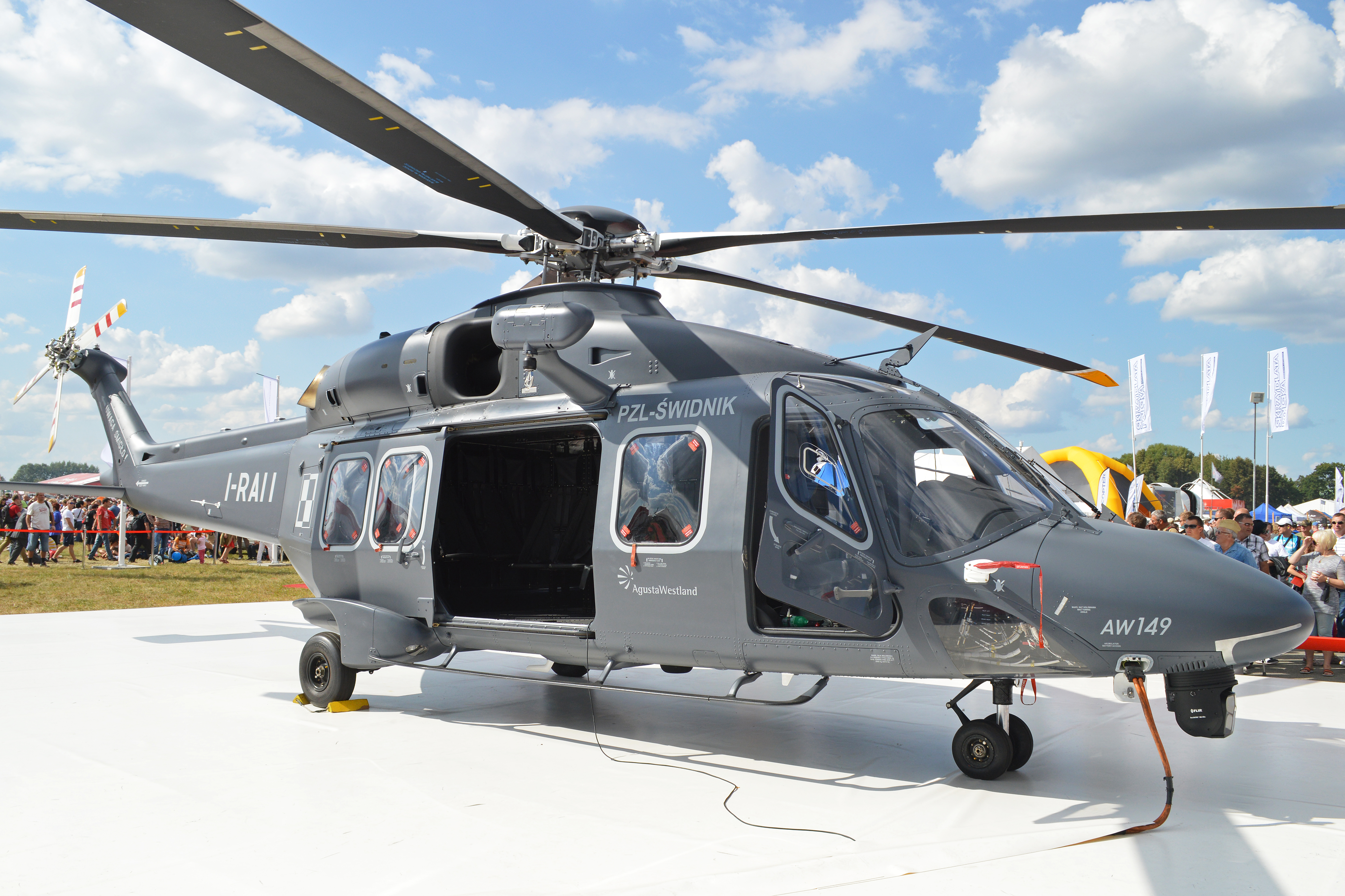 The AW149 first flew in 2009 and is competing against the S-70i Blackhawk and the Eurocopter EC725 for a Polish military contract for up to 70 helicopters. If successful, it would be manufactured by PZL-Swidnik. c/n currently unknown. On static display at the 2013 Airshow at Radom Airbase, Poland. 24-8-2013